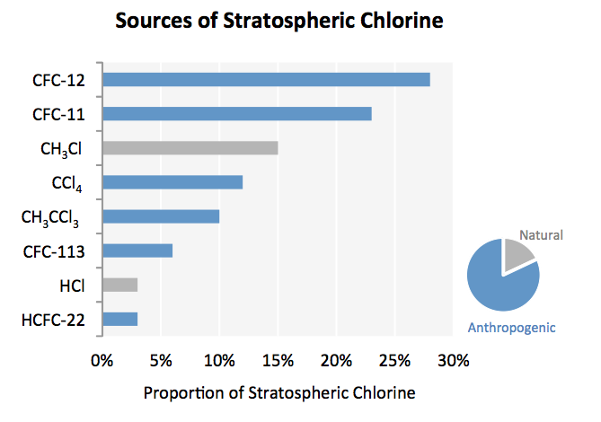 Sources of Stratospheric Chlorine. According to World Meteorological Organization, Scientific Assessment of Ozone Depletion: 1998, WMO Global Ozone Research and Monitoring Project - Report No. 44, Geneva, 1998. This image is a revised version of Image:Sources of stratospheric chlorine.png by User:Preetikapoor0.